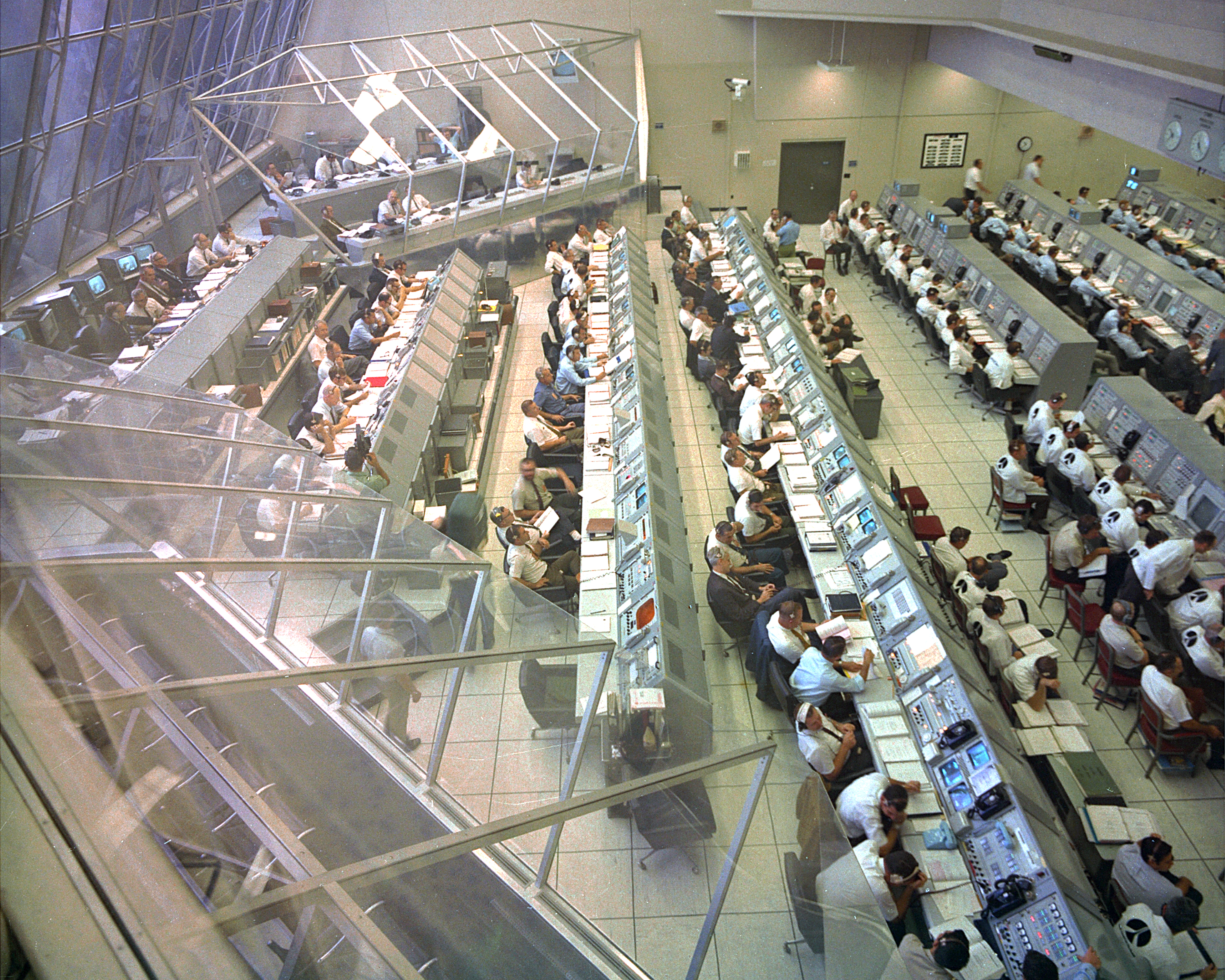 Overall view of the Firing Room #2 in the Launch Control Center during the Countdown Demonstration Test for the Apollo 12 mission.